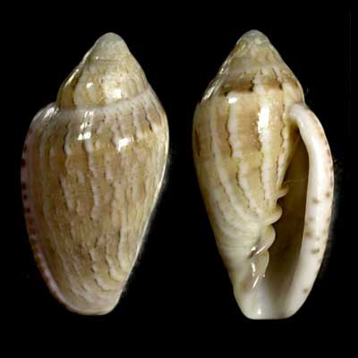 Species: Marginella cosmia Bartsch, 1915 data: from 30-35m East London, South Africa